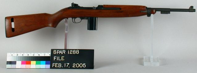 M2 Carbine